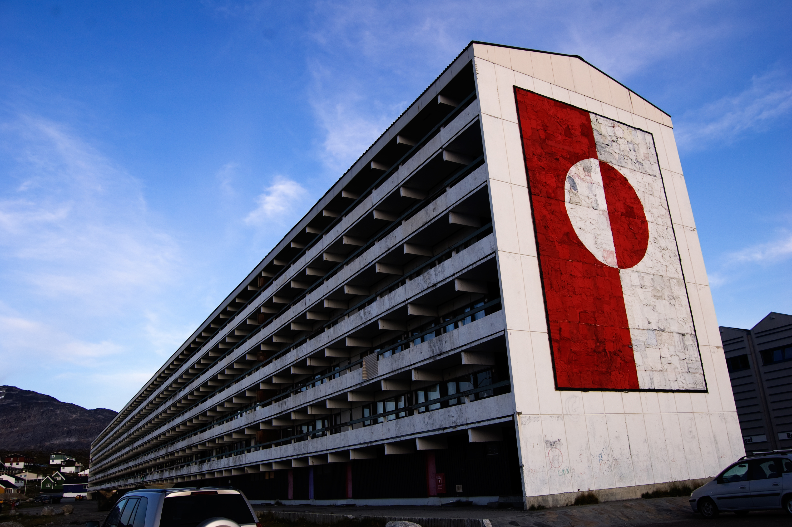 The ugliest and biggest residential building in Greenland. Over 500 apartments. Built in the 70's